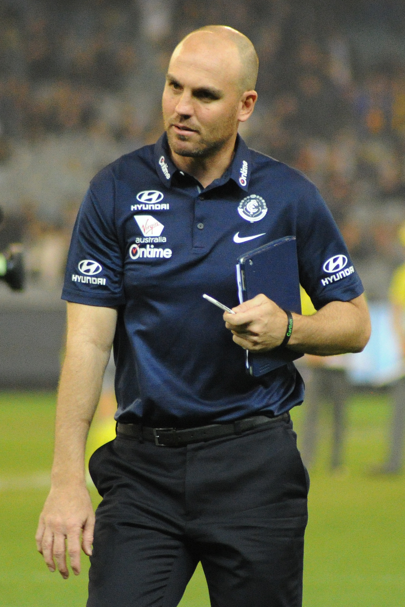 Cameron Bruce during the AFL round five match between Carlton and West Coast on 21 April 2018 at the Melbourne Cricket Ground in Melbourne, Victoria.